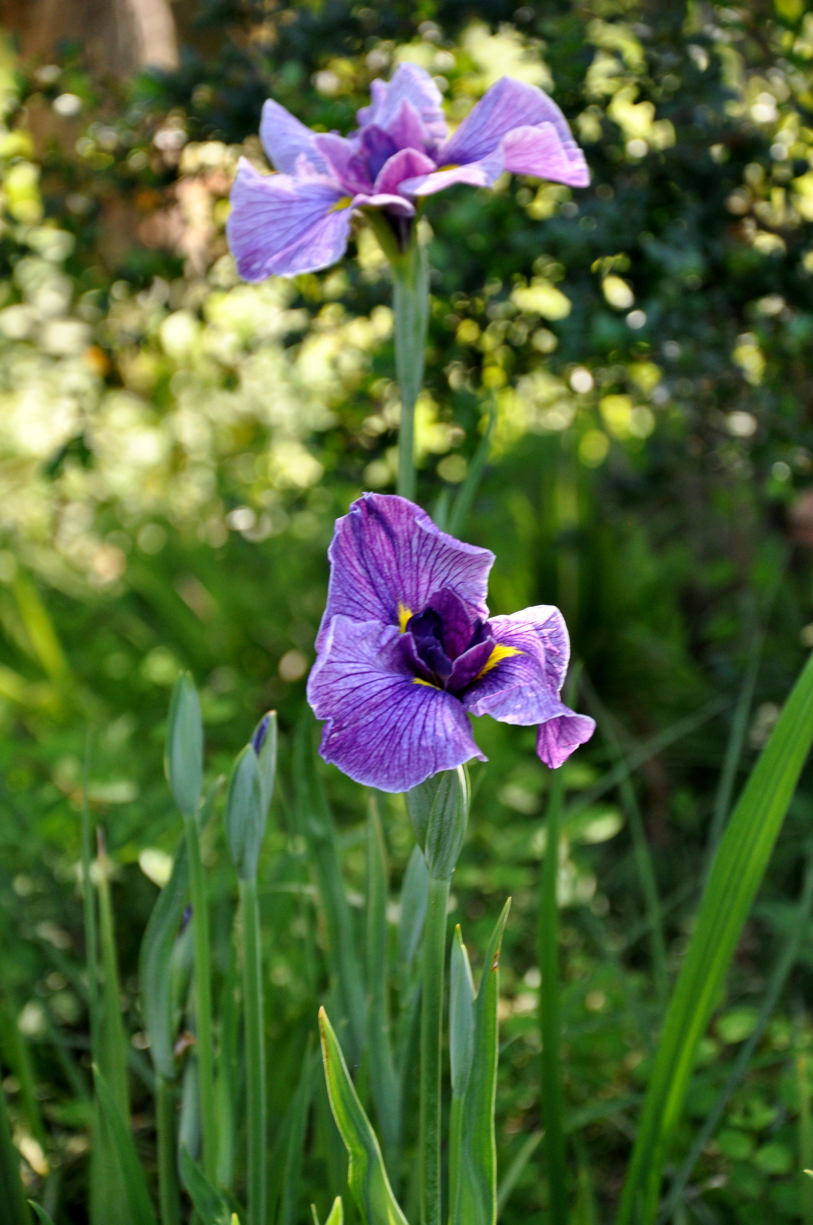 In Batumi